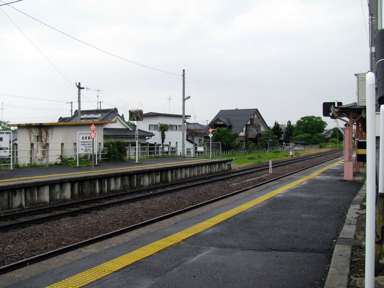 Kawahigashi Station on Suigun Line